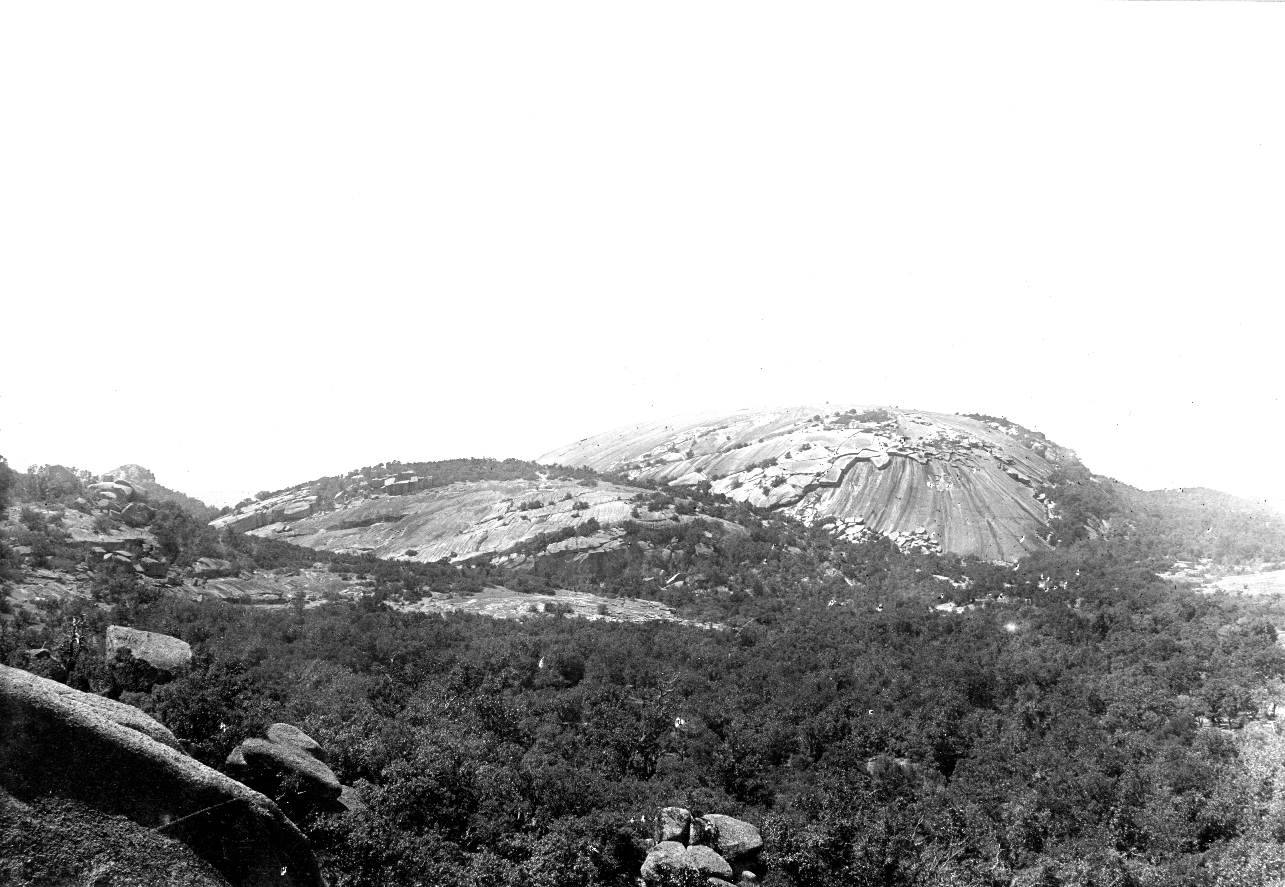 Enchanted Rock in southwestern part of Llano quadrangle, looking 45 degrees W. from most easterly peak in-group, shows exfoliation of the granite parallel to the surface. Llano County, Texas. 1912. Plate 10 in U.S. Geological Survey. Folio 183. 1912.